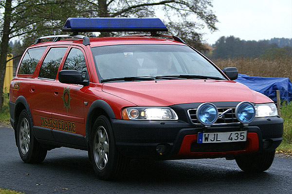 Fire engine, Volvo XC70, operation management, in Stockholm Sweden